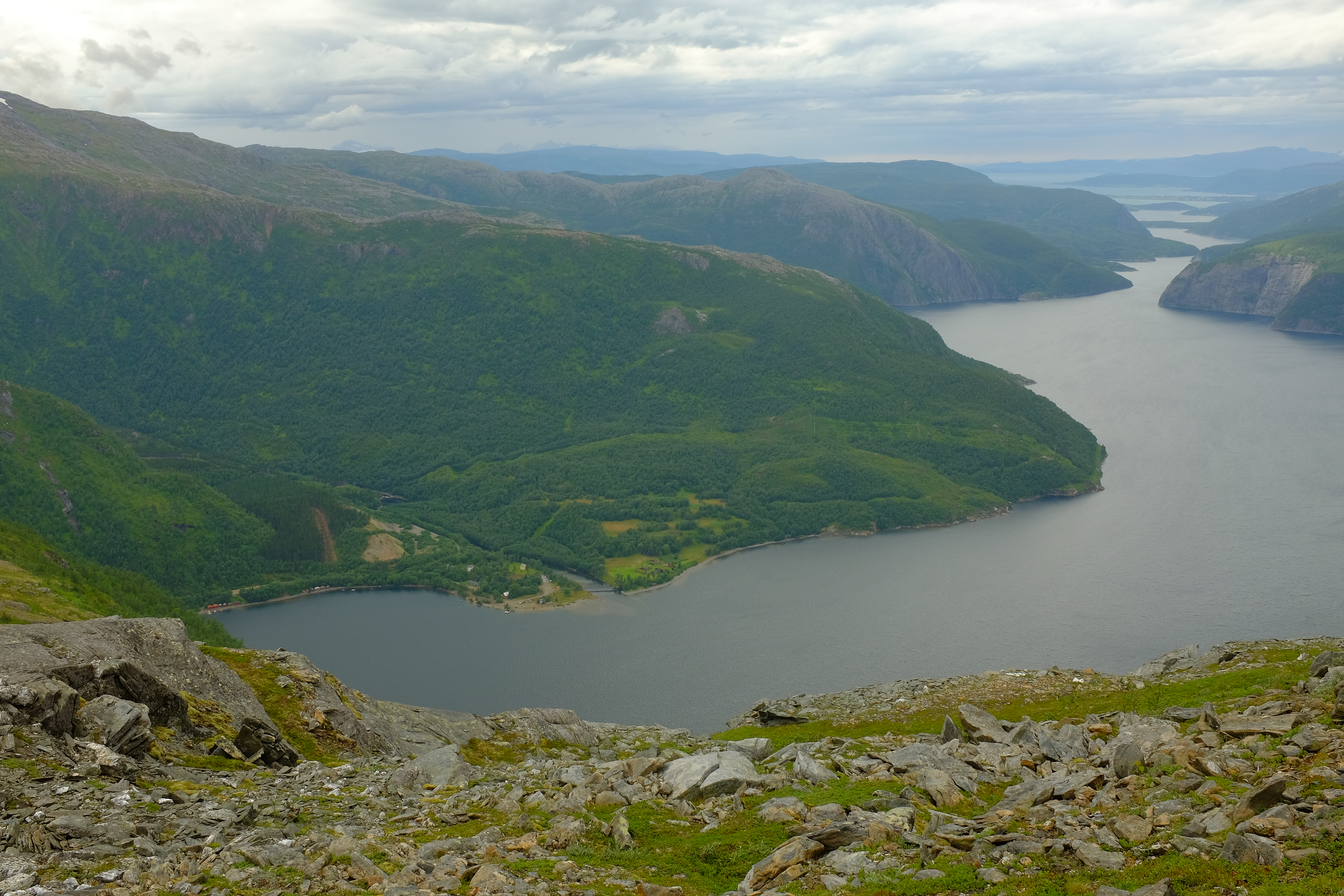 Sjønstå was a village for a short period when Sulitjelma Gruber had its activity in the area, approximately 1890-1956. Sjønstå farm and Sjønståelva which flows into Øvervatnet lake, Fauske municipality in Nordland county.